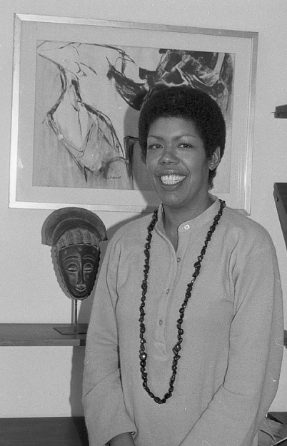 Sylvia H. Williams, director of the National Museum of African Art (NMAfA), (2/1983-1996), stands in front of two objects from the collection